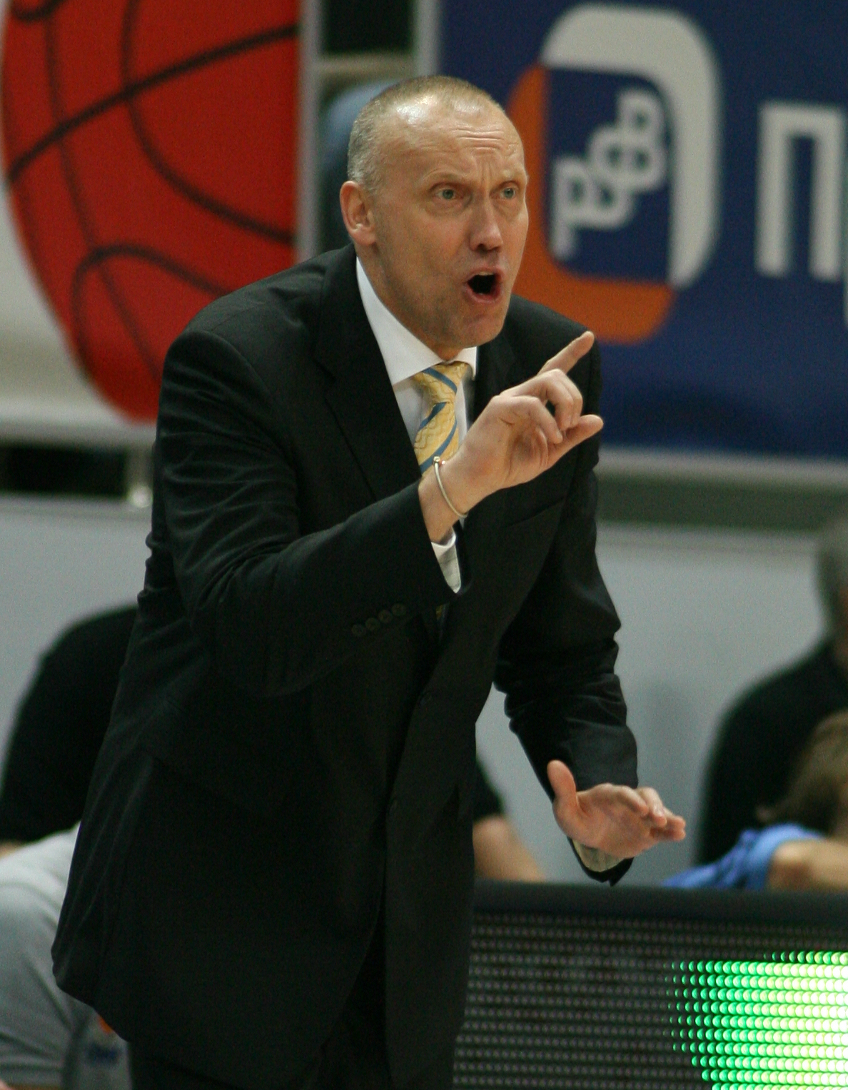 BC Khimki head coach Rimas Kurtinaitis, 2011